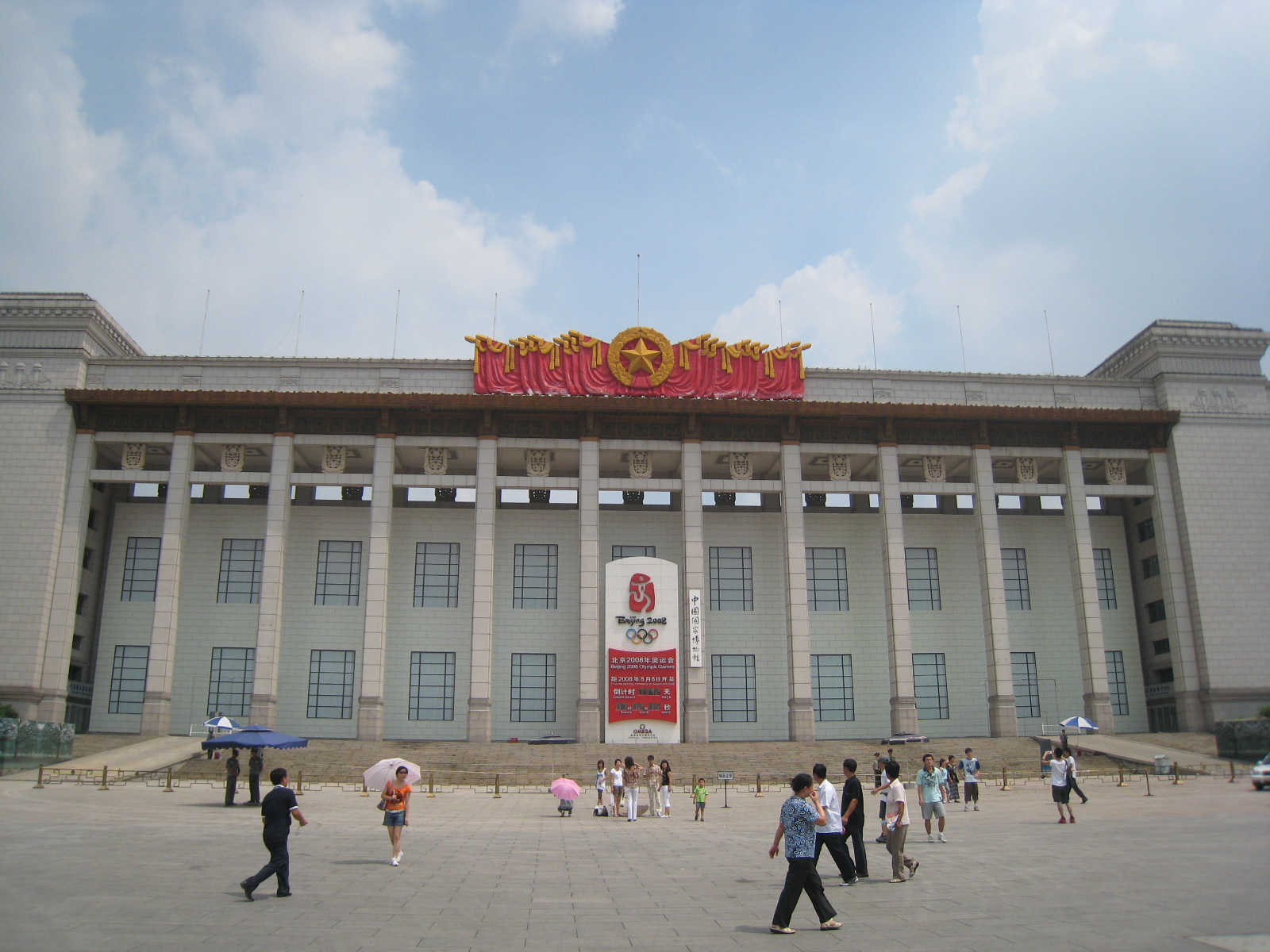 The National Museum of China is under renovation. You can see they sealed off the main entrance and put up a temporary wall. The Olympic countdown board can be seen in the middle. [August 2007]